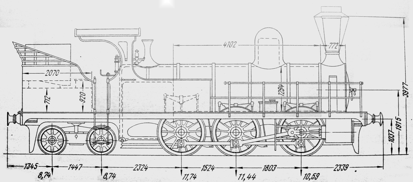 Russian tank loc type 0-6-4 Yer' series